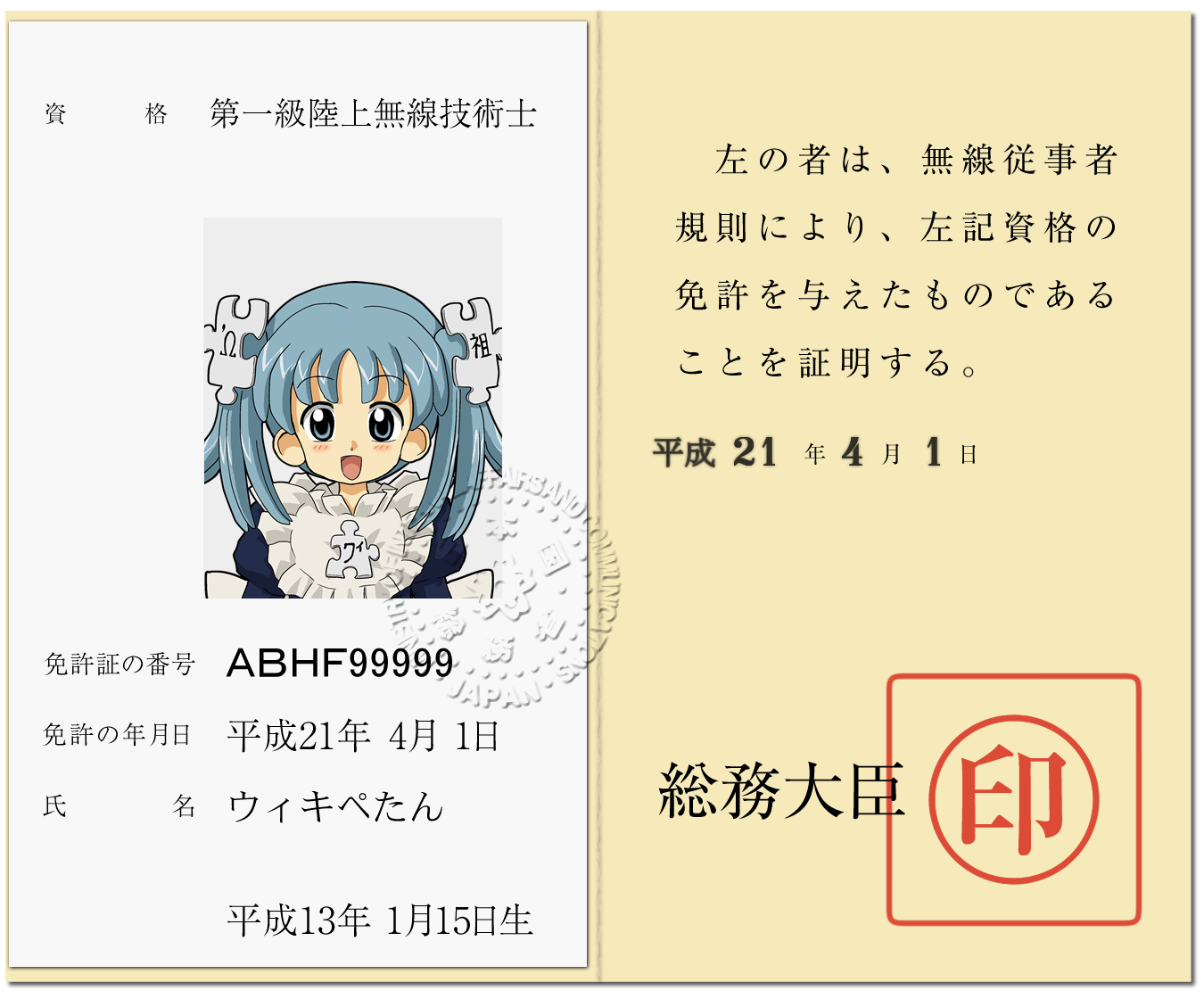 An example of Japanese License of First-Class Technical Radio Operator for On-The-Ground Services